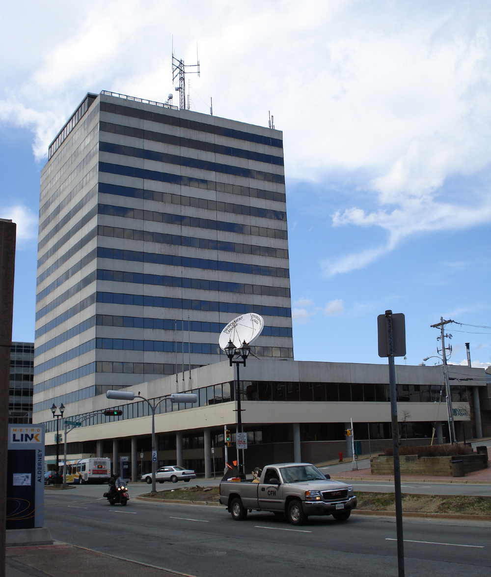 Photo taken by Chris Grady, 2007-05-02